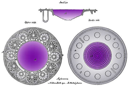 Colourized patent drawing of an early vault light